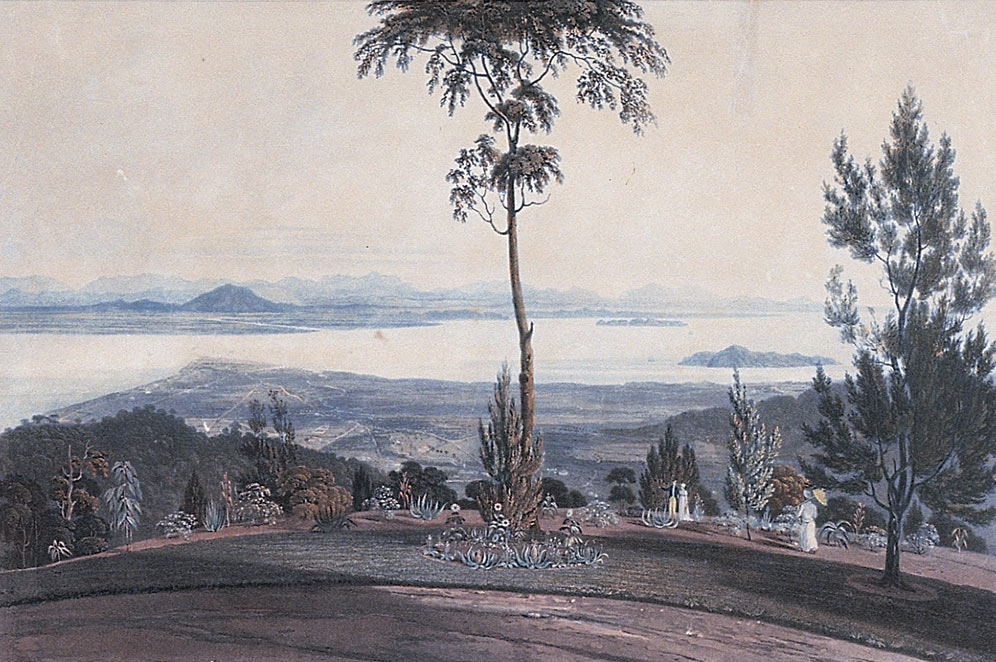 Title: View from Strawberry Hill, Prince of Wales's Island Media: Aquatint Width: 700 mm (28 in) Height: 460 mm (18 in) Year of creation: 1818 Mode of acquisition: Presented by Estate of late Heah Joo Seang, 1969